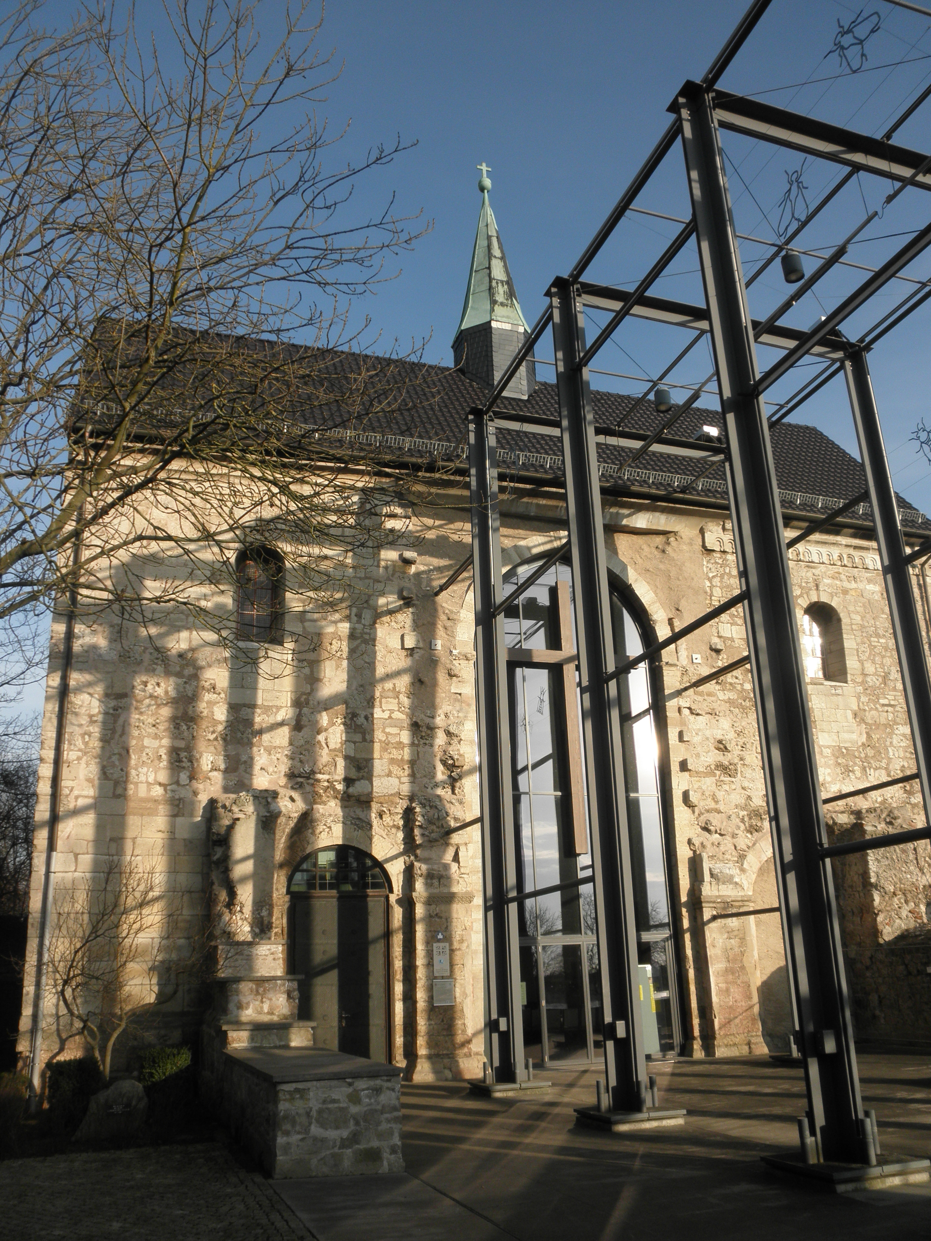 Frauenbergkirche in Nordhausen in Thuringia